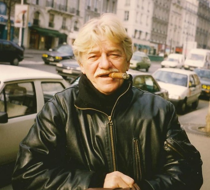 American actor Seymour Cassel, photographed in Paris in 1995